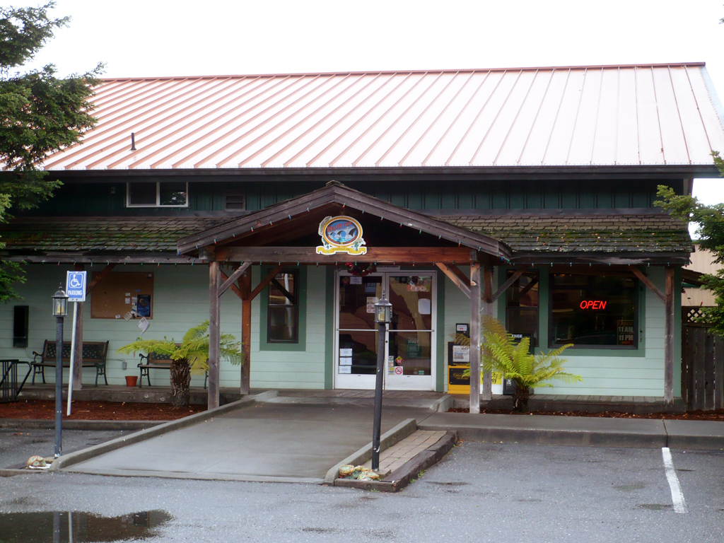 The original Eel River Brewery location and restaurant in Fortuna, California.